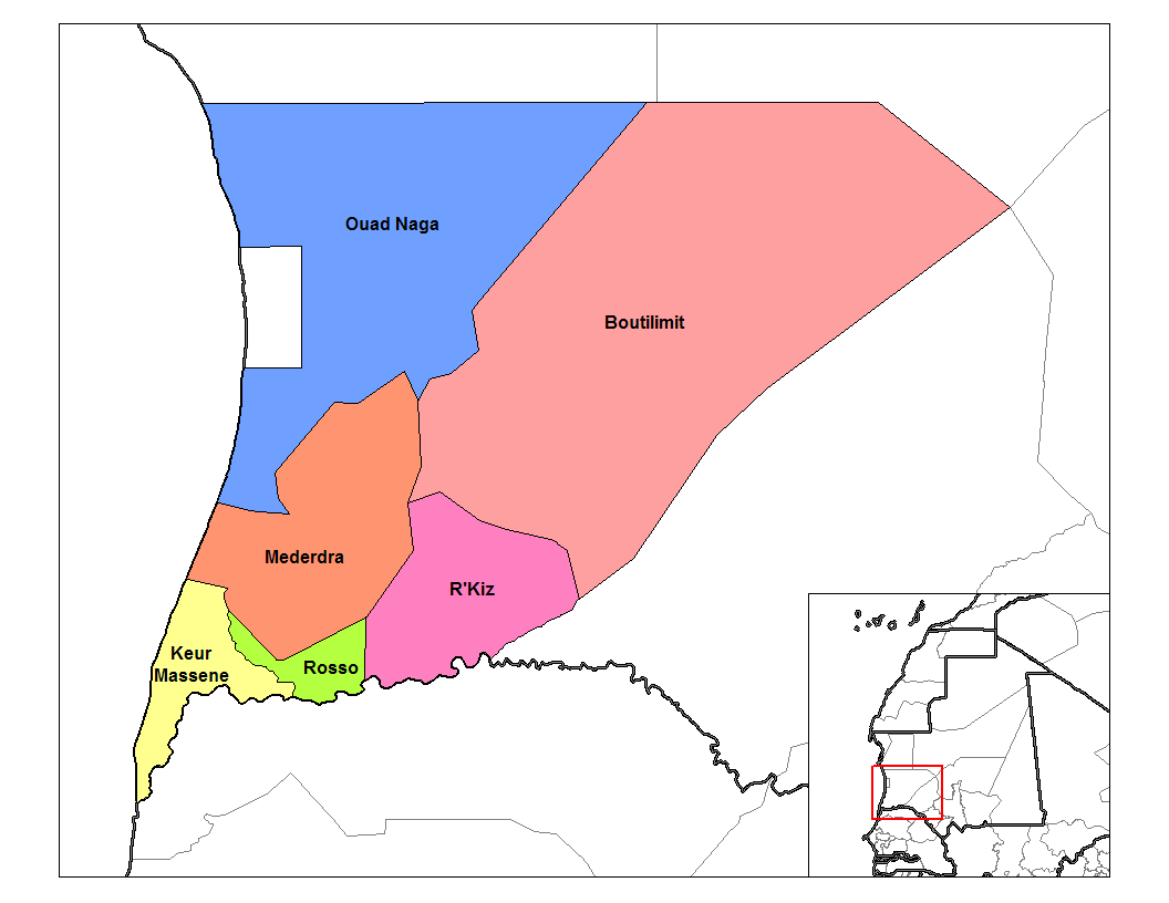 Map of the departments of Trarza region of Mauritania. Created by Rarelibra 20:14, 28 September 2006 (UTC) for public domain use, using MapInfo Professional v8.5 and various mapping resources.